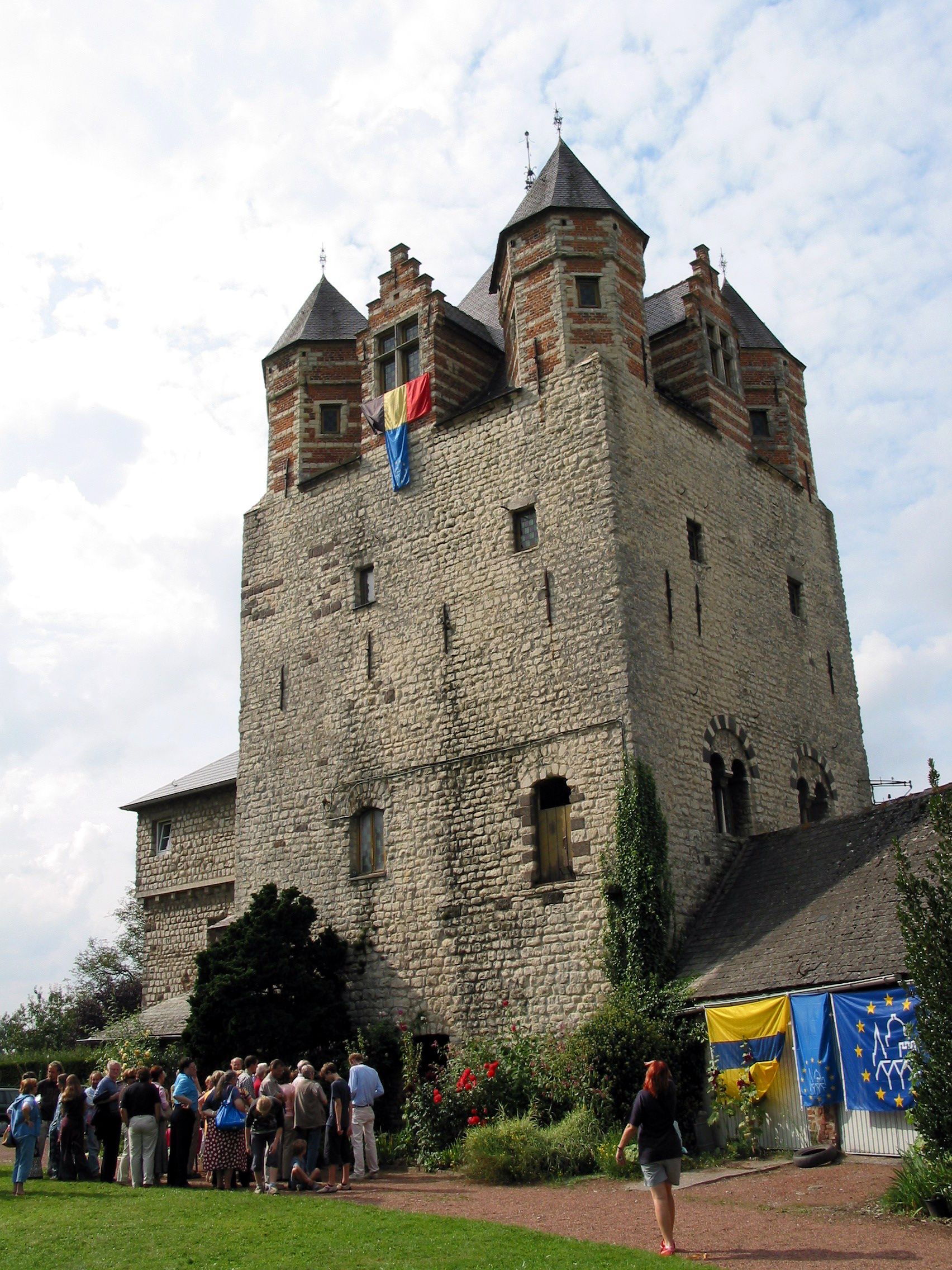 Céroux-Mousty (Belgium), the Moriensart keep (first part of the XIIIth century).